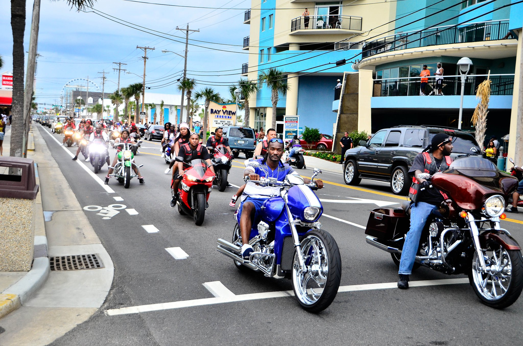 Bike during the Black Bike Week 2011 Biker Really on Ocean Blvd Myrtle Beach